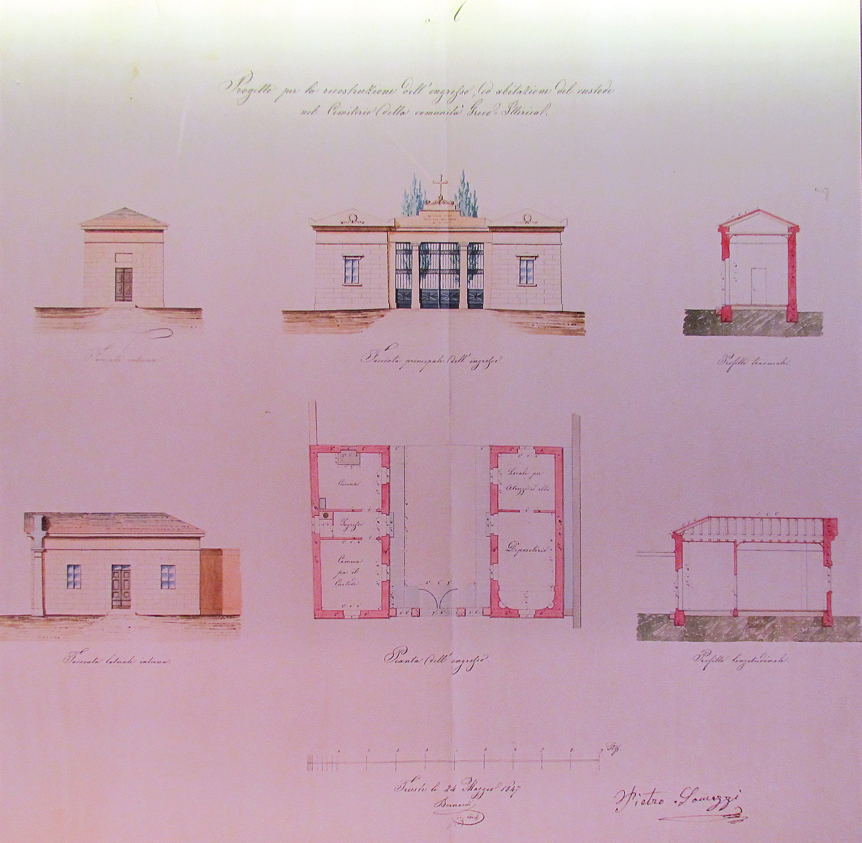 Pietro Somazzi, Project of Orthodox Cemetery in Trieste, 1847